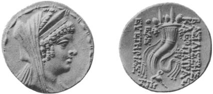 Coin of Cleopatra Thea. Reverse shows a double cornucopia. The Greek text reads ΒΑΣΙΛΙΣΣΗΣ ΚΛΕΟΠΑΤΡΑΣ ΘΕΑΣ ΕΥΕΤΗΡΙΑΣ. The date ΖΠΡ is year 187 of the Seleucid era, corresponding to 126–125 BC.